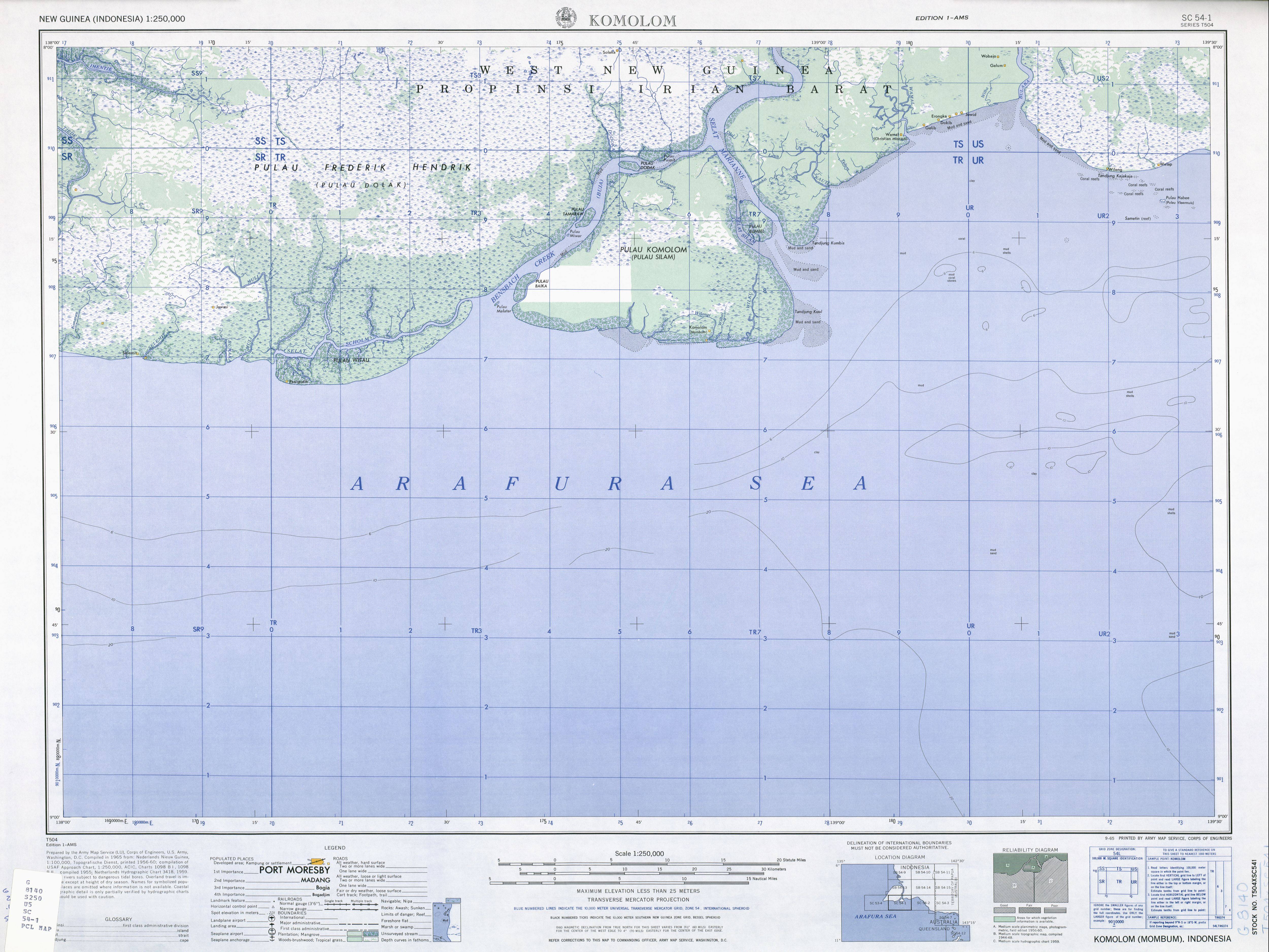 SE Section of Yos Sudarso Island, Indonesia